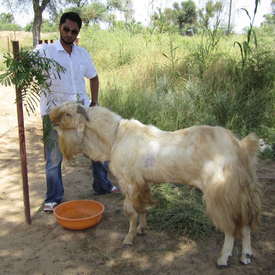 The Majestic Jamunapari Buck